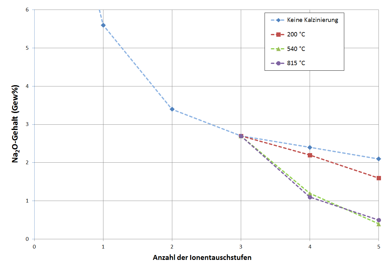 Example in Patent US Re. 28,629: Ion exchange for sodium removal in zeolite Y with and without calcination.